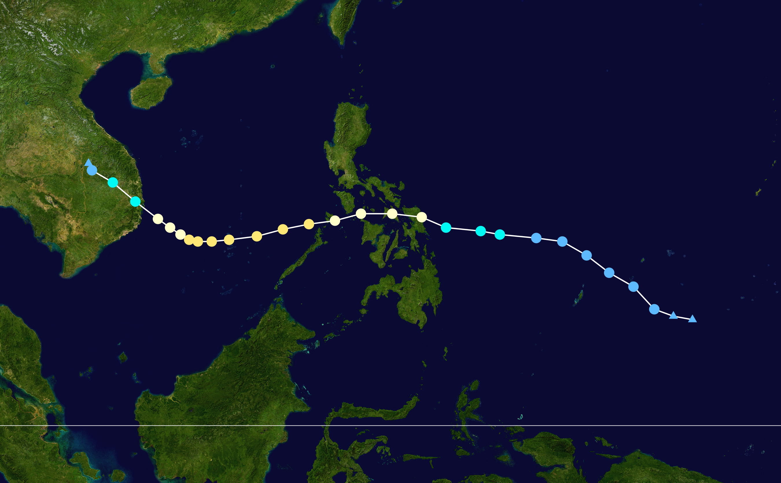 Track map of Typhoon Faith of the 1998 Pacific typhoon season. The points show the location of the storm at 6-hour intervals. The colour represents the storm's maximum sustained wind speeds as classified in the Saffir–Simpson scale (see below), and the shape of the data points represent the nature of the storm, according to the legend below. Saffir–Simpson scale Tropical depression≤38 mph≤62 km/h Category 3111–129 mph178–208 km/h Tropical storm39–73 mph63–118 km/h Category 4130–156 mph209–251 km/h Category 174–95 mph119–153 km/h Category 5≥157 mph≥252 km/h Category 296–110 mph154–177 km/h Unknown Storm type Tropical cyclone Subtropical cyclone Extratropical cyclone / Remnant low / Tropical disturbance / Monsoon depression